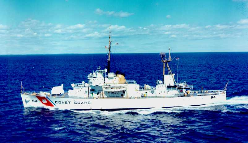 USCGC Escanaba (WHEC-45)